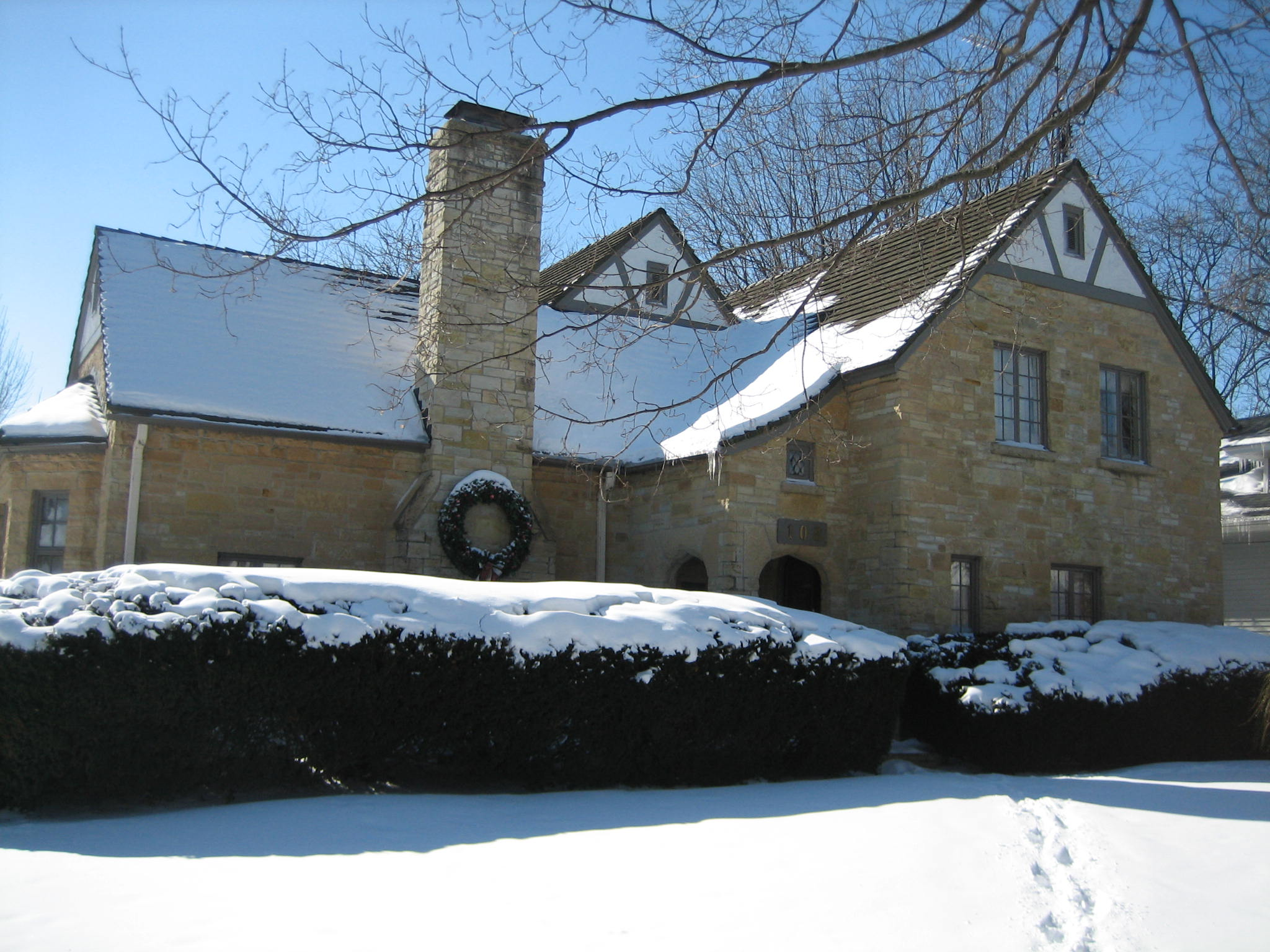 108 Lincoln St. Dr. Clark House, Sycamore, Illinois, Sycamore Historic District. National Register of Historic Places